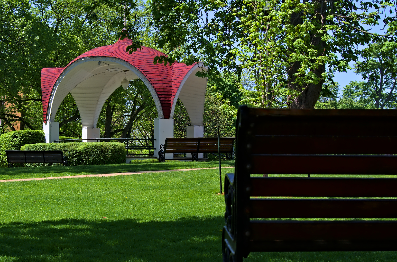 Some days it is challenging to find a good spot to sit and rest over lunch. Outdoors is ideal, particularly this time of year. However, a shady spot is highly recommended. This bench was surprisingly unoccupied today at noon. With a great view of the T. Roy Adams bandshell (named after the former mayor of St. Catharines) and full shade from the nearby maple tree, it was difficult to leave this spot and return back to the work.